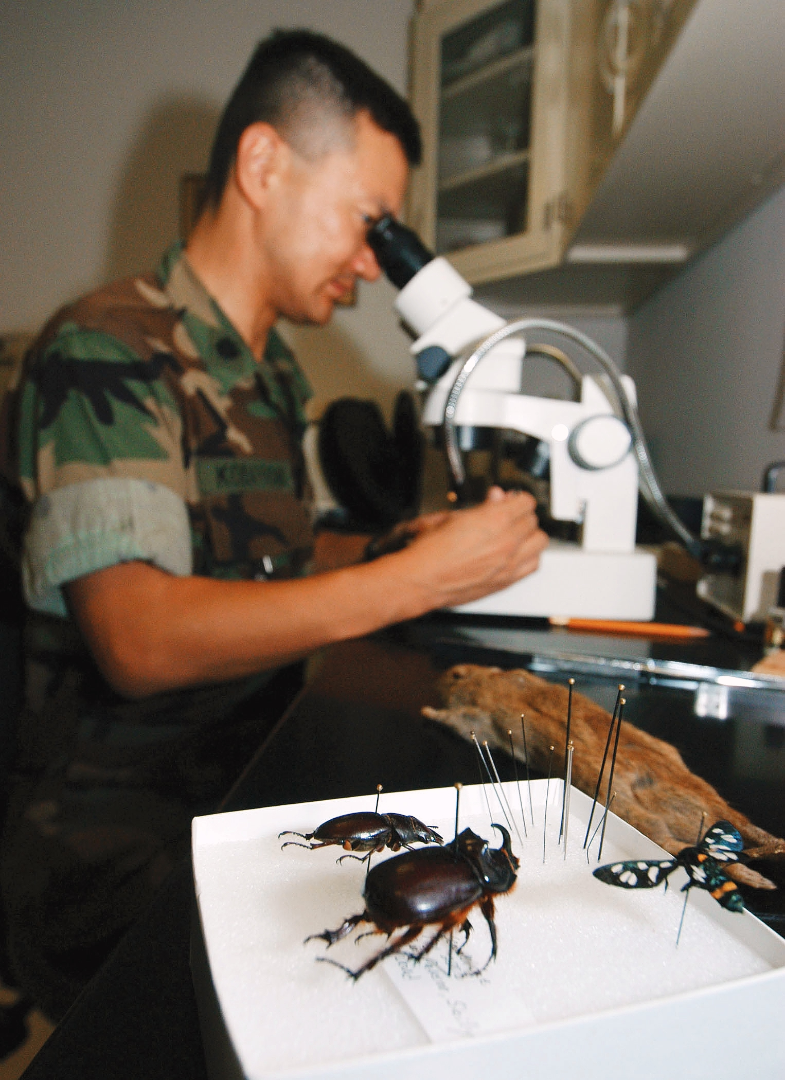 Naval Air Station (NAS) Sigonella, Sicily (Sept. 19, 2003) -- Cmdr. Daizo Kobayashi, assigned to Navy Evironmental and Preventive Medicine Unit Seven (NEPMU 7), uses a microscope to identify an insect in the entomology department. Certain species of insects carry different diseases, which NEPMU 7 works to assess and prevent. The mission of NEPMU7 is to protect and preserve force health readiness through provision of theater-wide preventive medicine support to Navy and Marine Corps forces, joint military operations and allied governments when directed. Sigonella provides logistical support for Sixth Fleet and NATO forces in the Mediterranean area. U.S. Navy photo by Journalist Seaman Stephen P. Weaver. (RELEASED)